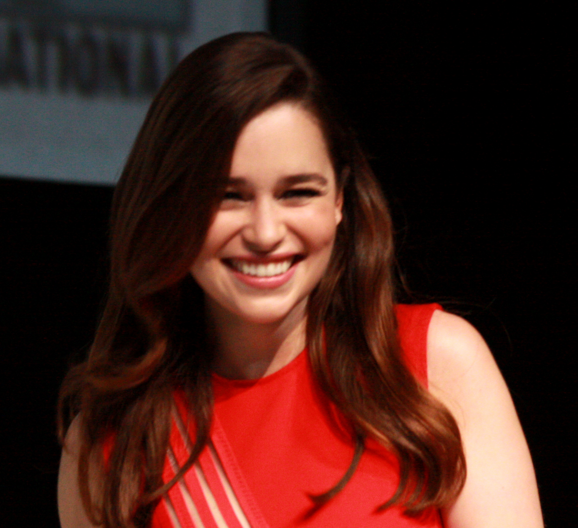 Emilia Clarke speaking at the 2013 San Diego Comic Con International, for "Game of Thrones", at the San Diego Convention Center in San Diego, California.